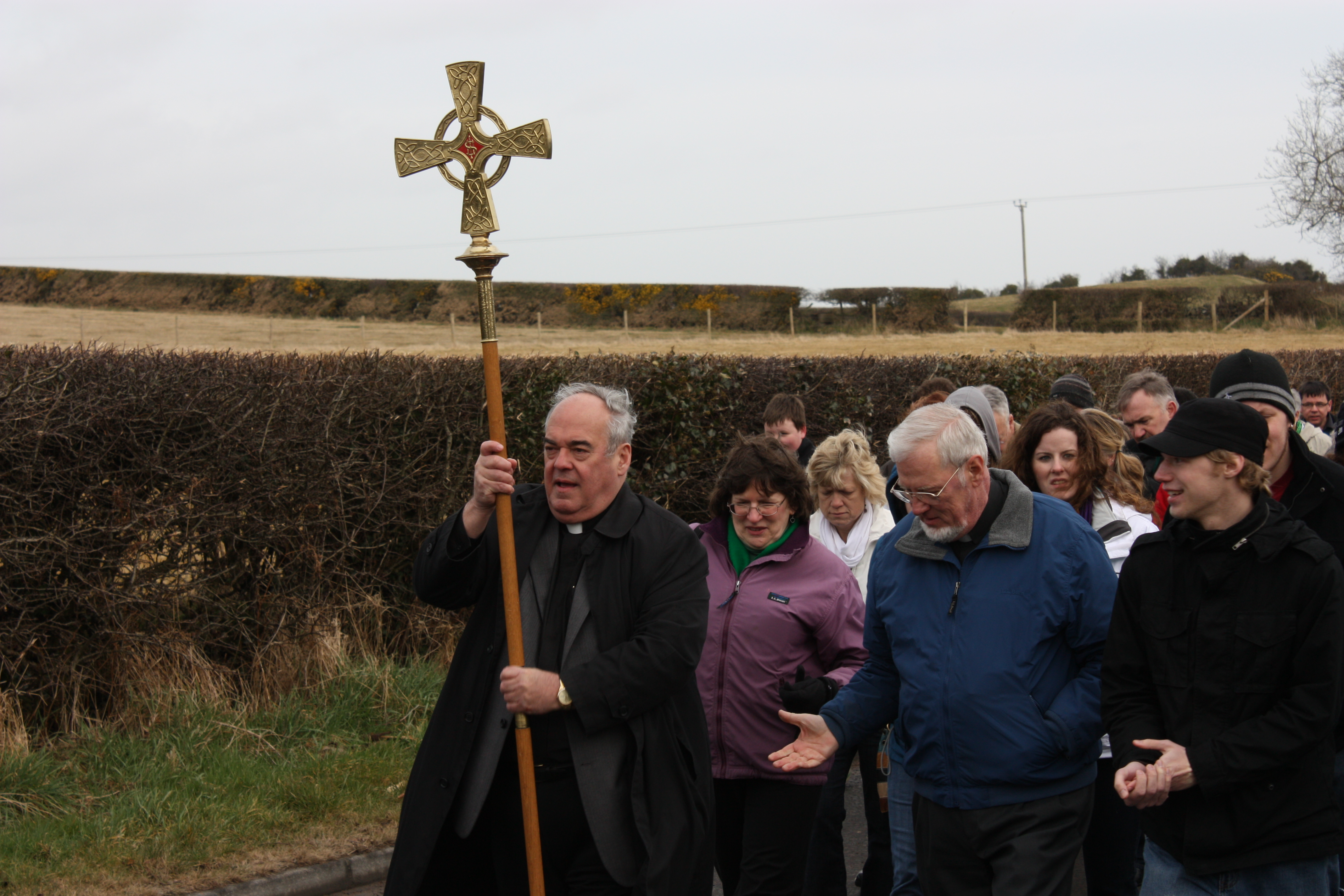 St Patrick's Day Inter Church procession, Saul Road, Downpatrick, County Down, Northern Ireland, March 2010